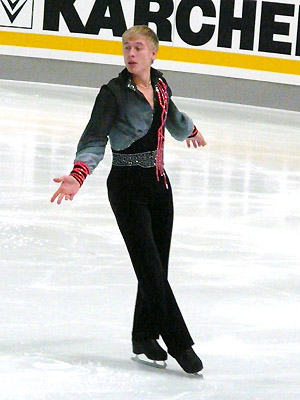 Ari-Pekka Nurmenkari at the 2007 Nebelhorn Trophy.